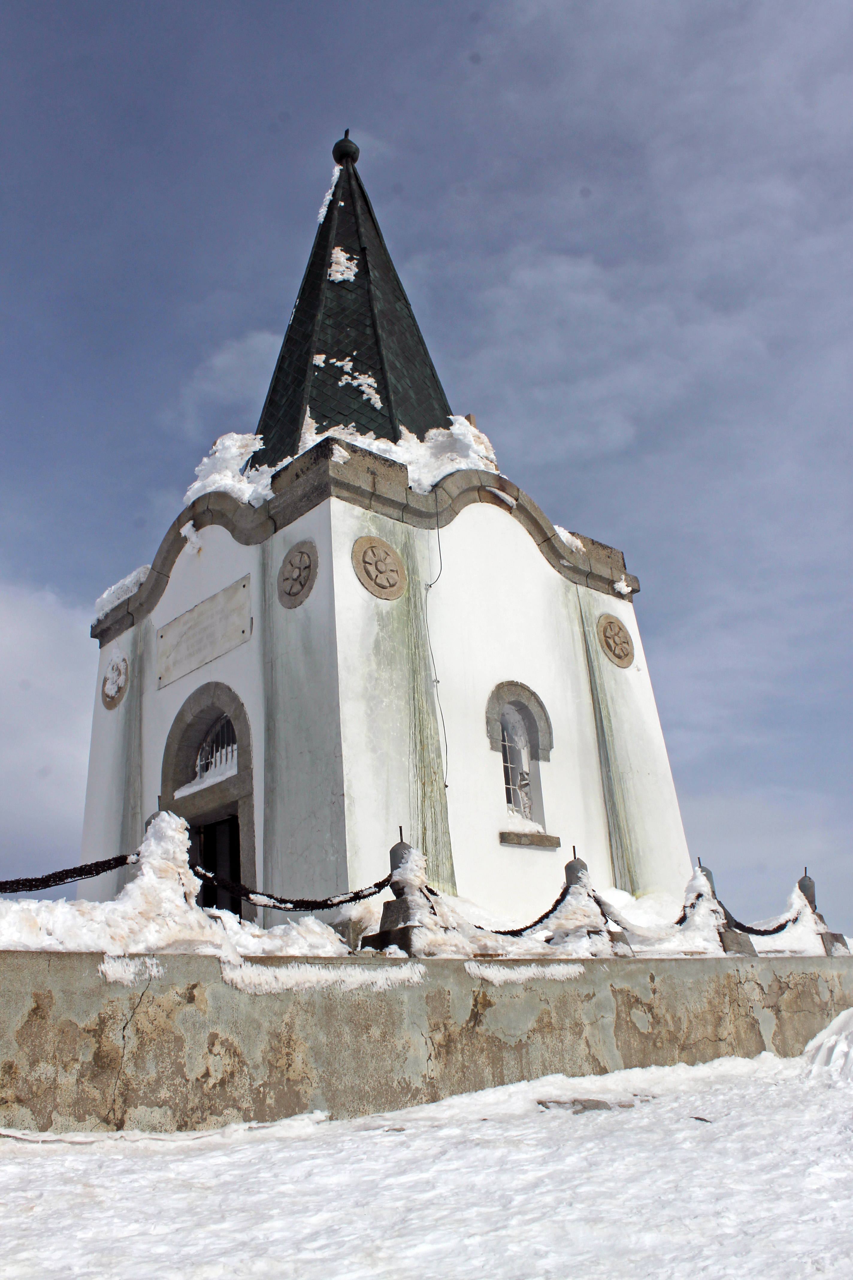 Saint Eliah church - Kajmakchalan mountain, Macedonia